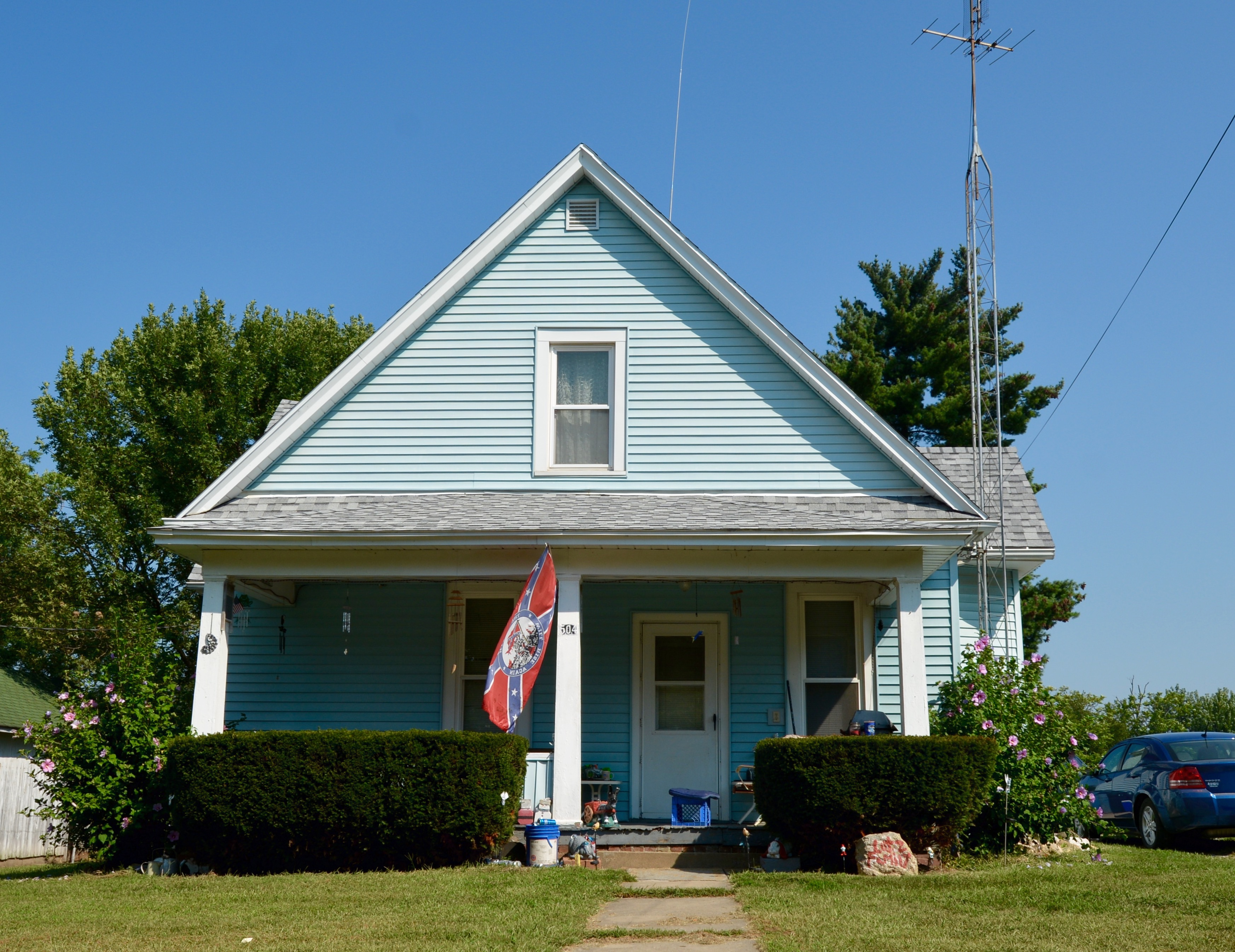 The site of the Elsworth Snowden House